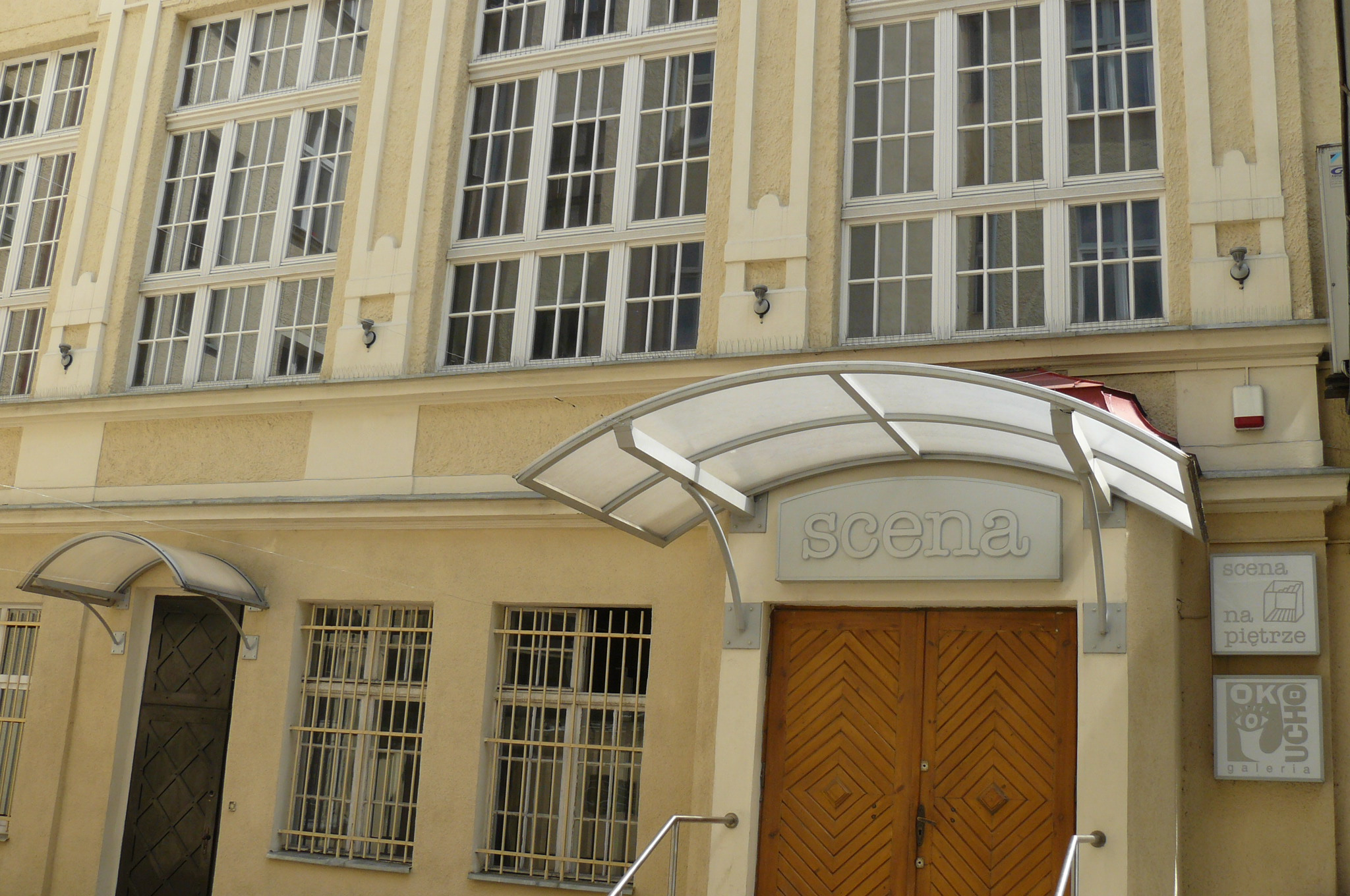 Theater Scena na Pietrze - Poznan, Masztalarska Street.